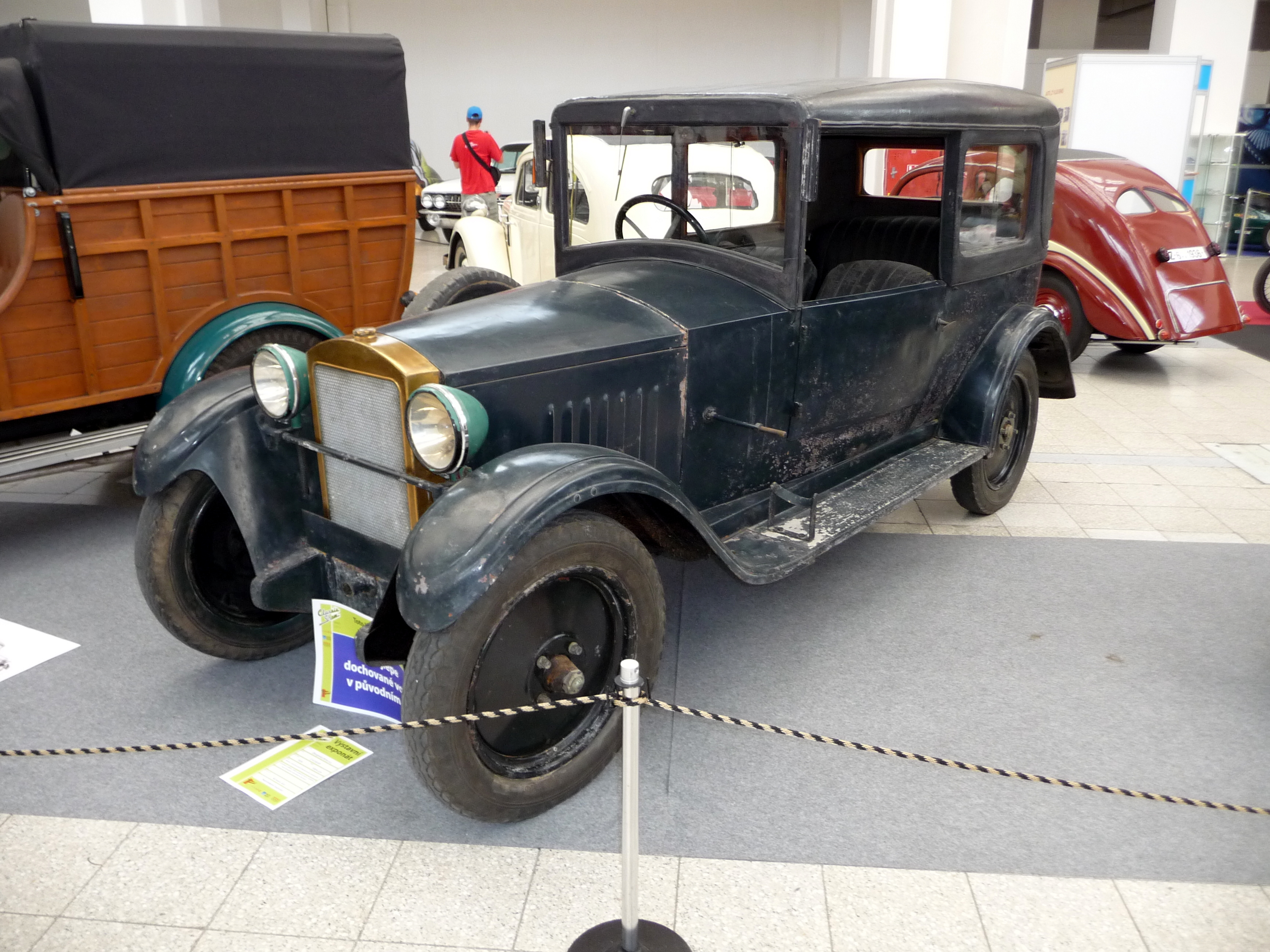 Zbrojovka Z 4/18HP Phaeton, year 1930, Classic Show Brno 2011, The Brno Exhibition Grounds -10 -5 -3 -2 ◄ ► +2 +3 +5 +10